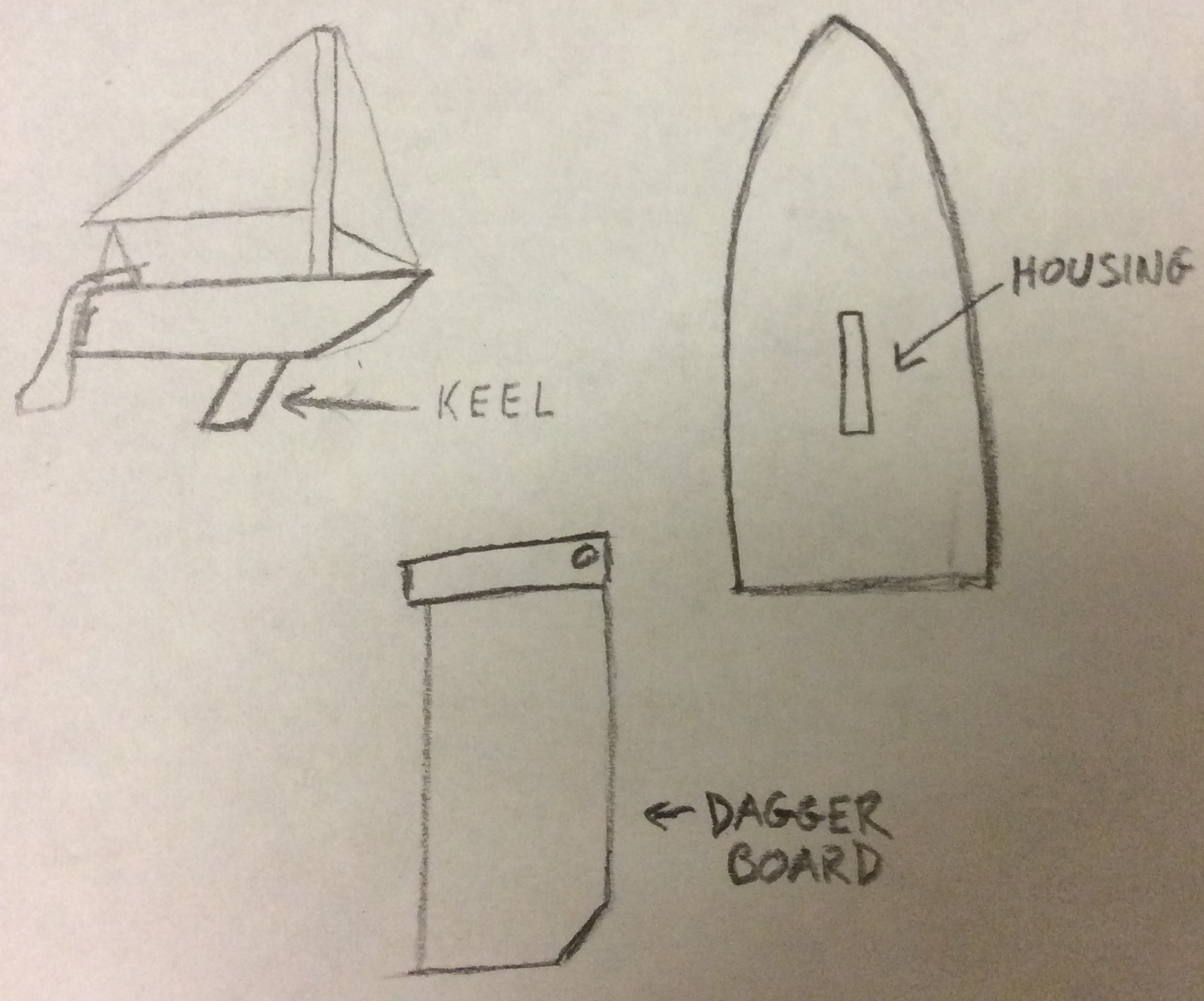 Housing is the trunk